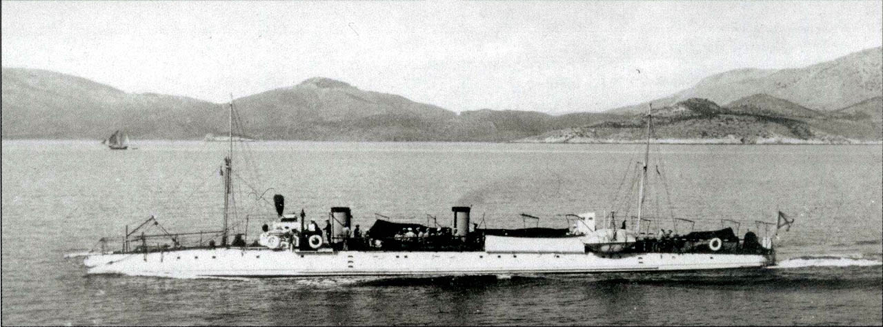 Imperial Russian Torpedo boat No.208.